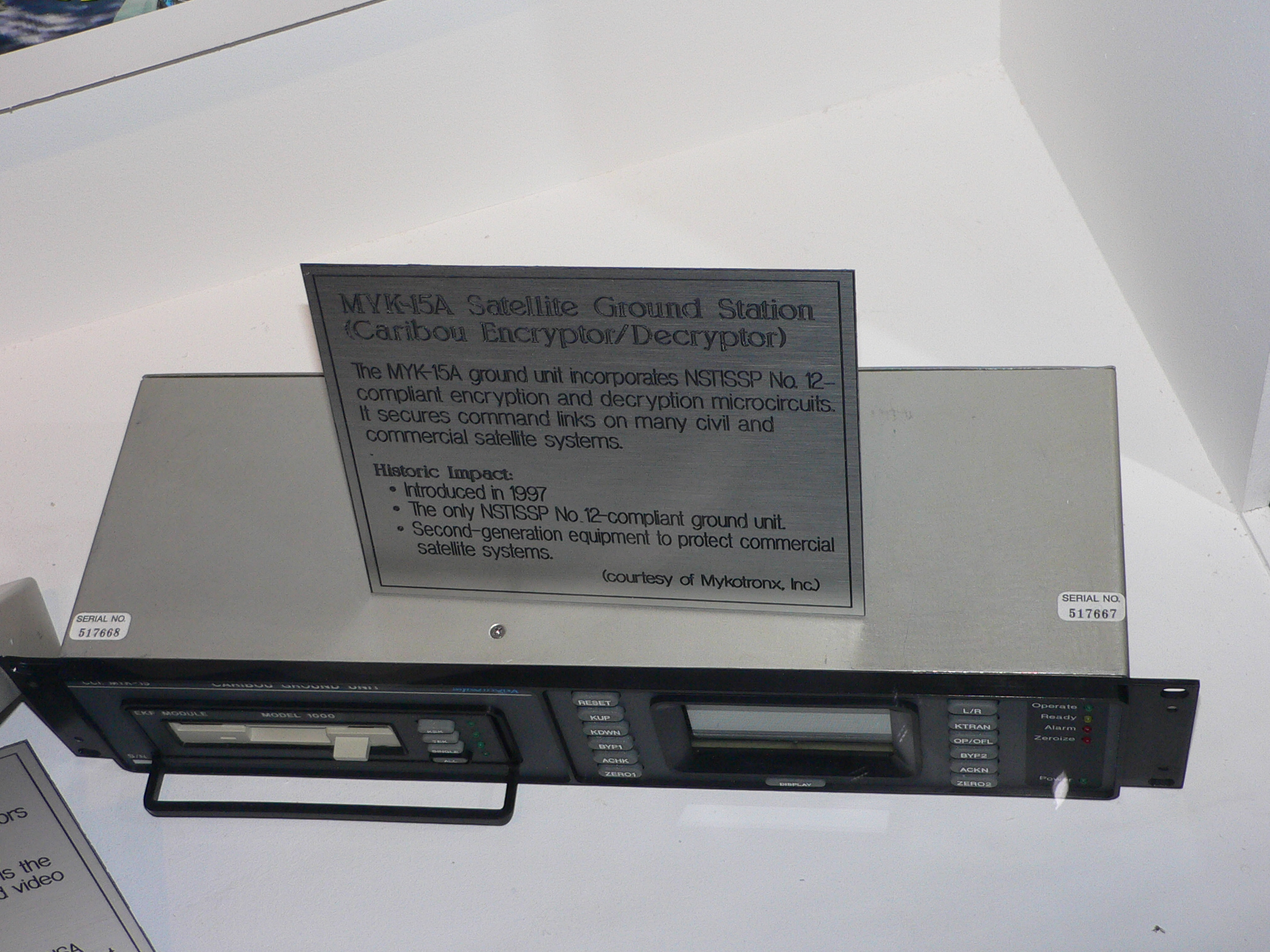 Pictures taken by myself at the US National Cryptologic Museum.